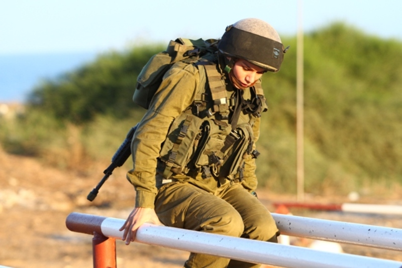 November 22, 2010. Soldiers from the Karakal and Magal units take part in the IDF-wide Combat Fitness Competition. The Combat Fitness Competition is a surprise tournament which the Chief of the General Staff announces only one month beforehand. During the tournament, units from all branches and commands in the IDF compete in different disciplines, such as navigation on foot, hand-to-hand combat ("krav maga"), shooting under duress, and various physical fitness tests. The competition started on Thursday, November 11th, and ended with a formal ceremony in attendance of the Chief of the General Staff on the 24th. לוחמות מיחידות קרקל ומגל ממשתתפות באליפות צה"ל בכושר קרבי. אליפות צה"ל בכושר קרבי הינה אליפות פתע, עליה הודיע הרמטכ"ל כחודש לפני התחרות. במהלכה, מתחרות כלל יחידות צה"ל במקצים השונים- תרגילי ניווט, ירי, קרב מגע, בוחן פלוגה, בוחן צוות, בוחן מסלול ובוחן ימי. האליפות התחילה ביום ה' 18.11, ותיסגר בטקס הסיום אשר יהיה בראשות הרמטכ"ל, ביום ד' 24.11.